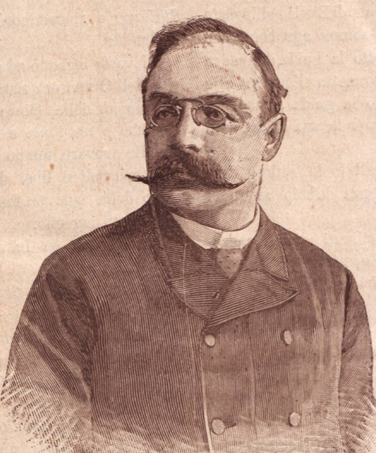 Engraving of Ottavio Ottavi (1849-1893), italian agronomist and writer.